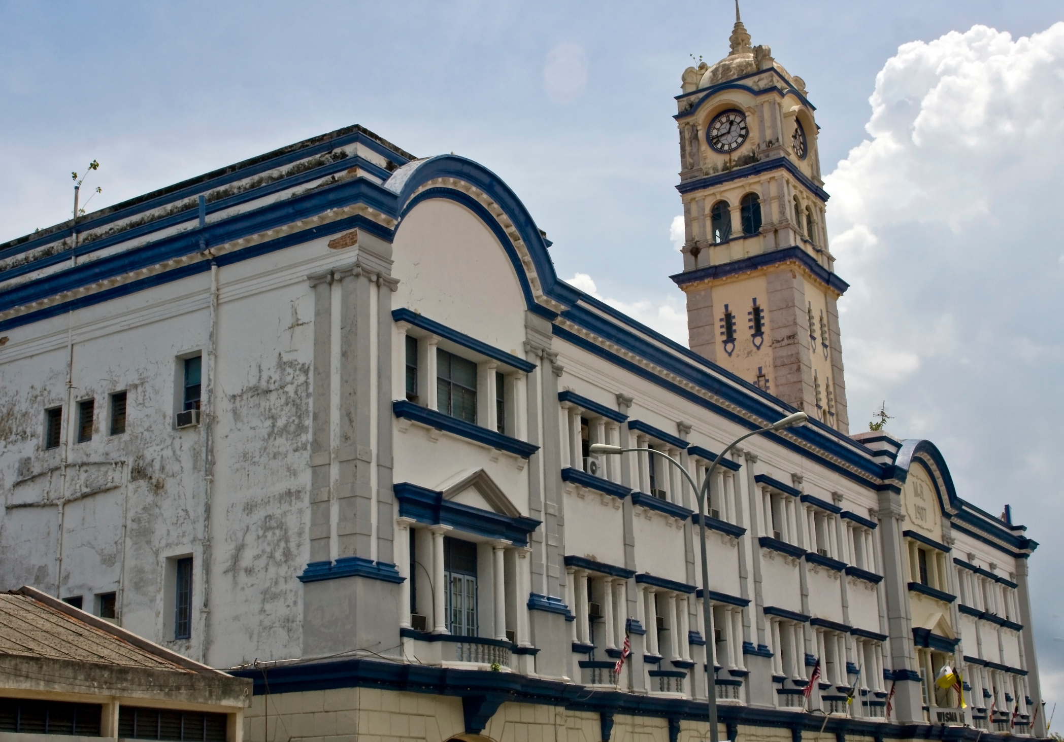 Wisma Kastam Negeri, Gat Lebuh China, Georgetown